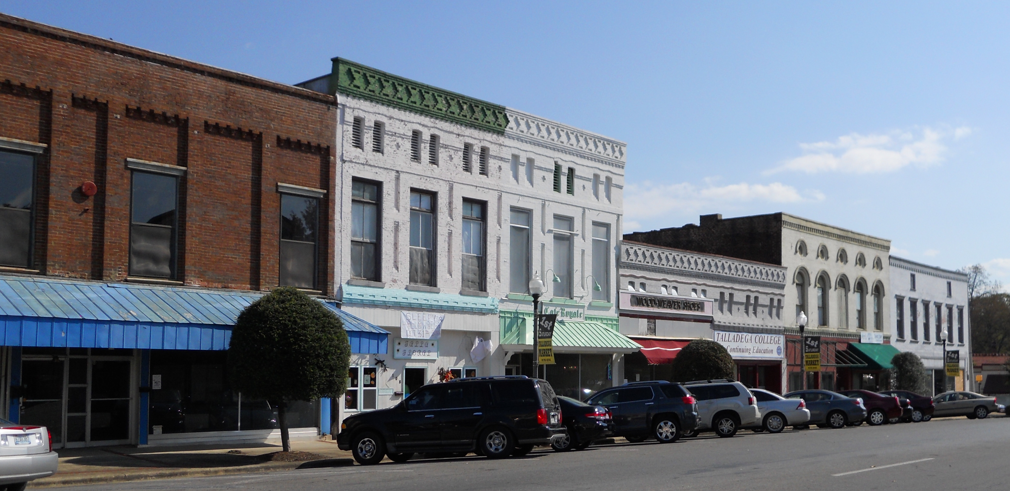 This is a photograph of the courthouse square in Talladega, Alabama.